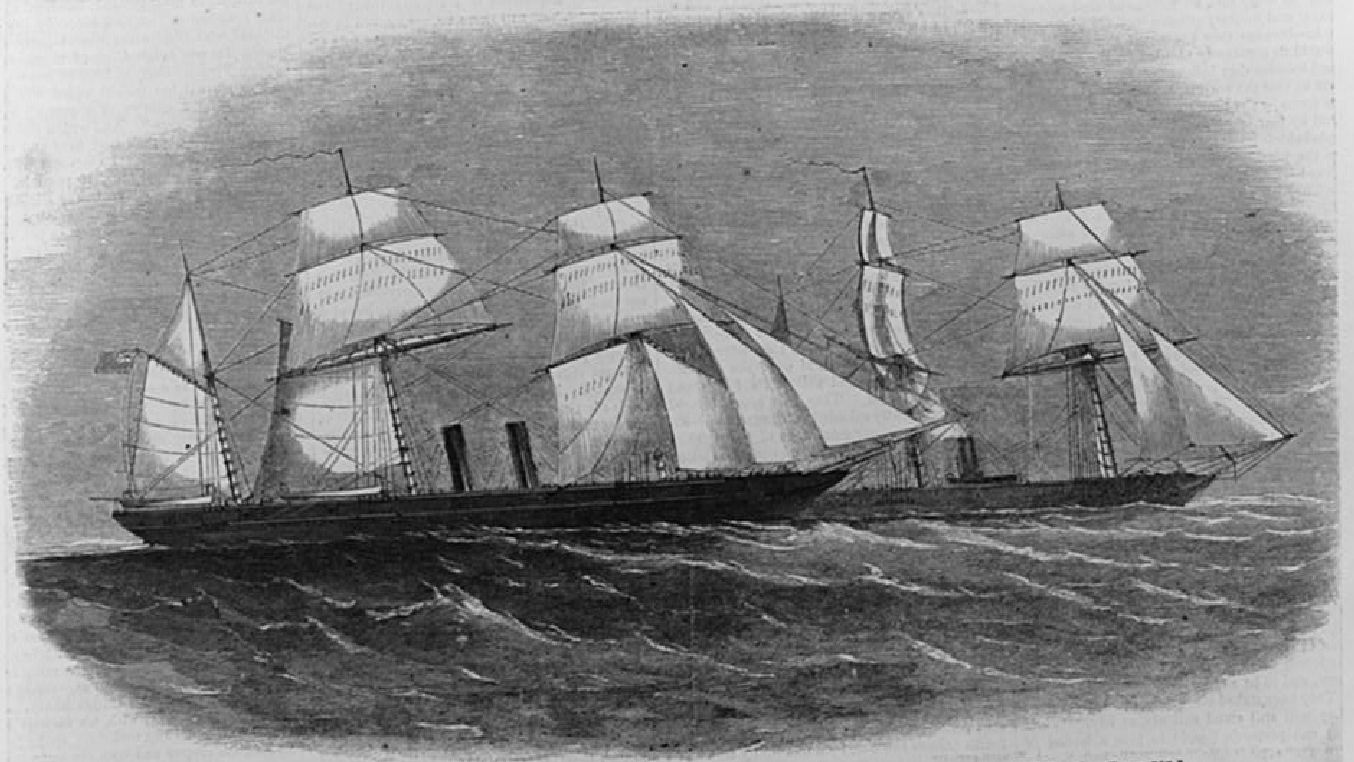 The captured Rebel privateer Florida and the United States steamer Wachusett. From Harper's Weekly, 1864.